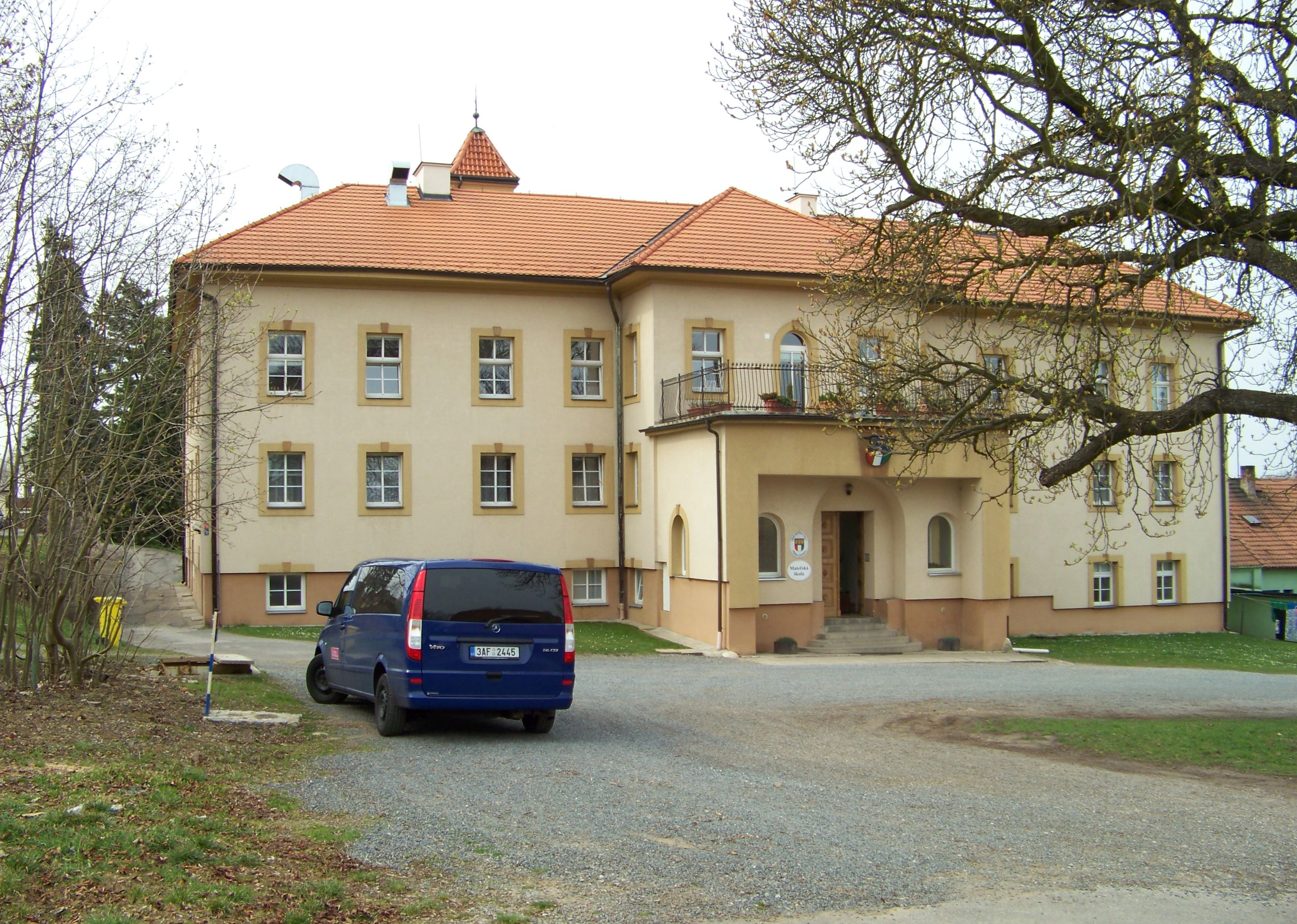 Prague-Lochkov, Czech Republic. Za ovčínem 1, a castle. - Google Maps - Google Earth